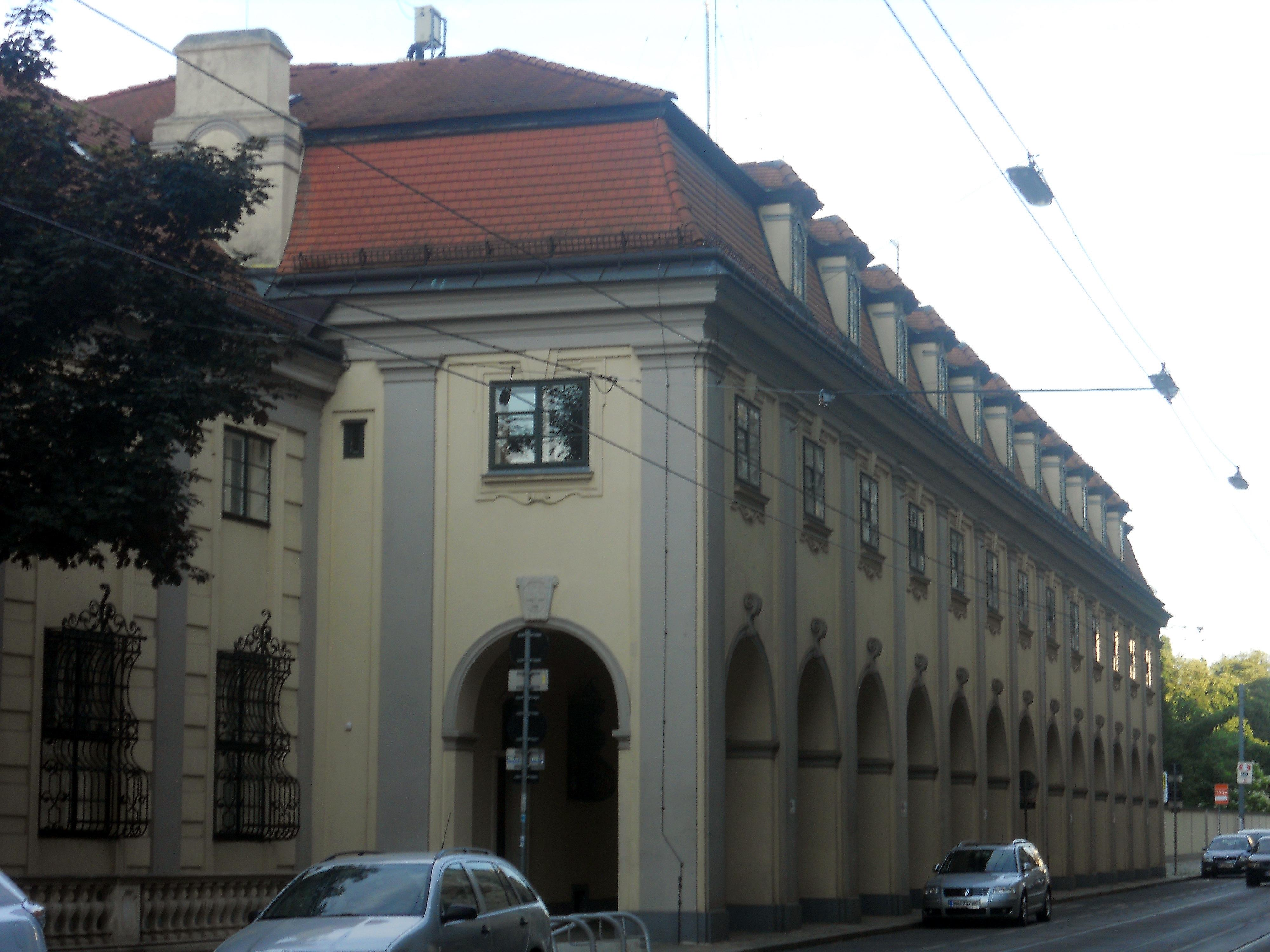 The Swiss Embassy in Vienna, former riding school of the Palais Schwarzenberg